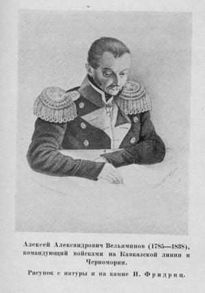 Velyaminov, Aleksey Aleksandrovich